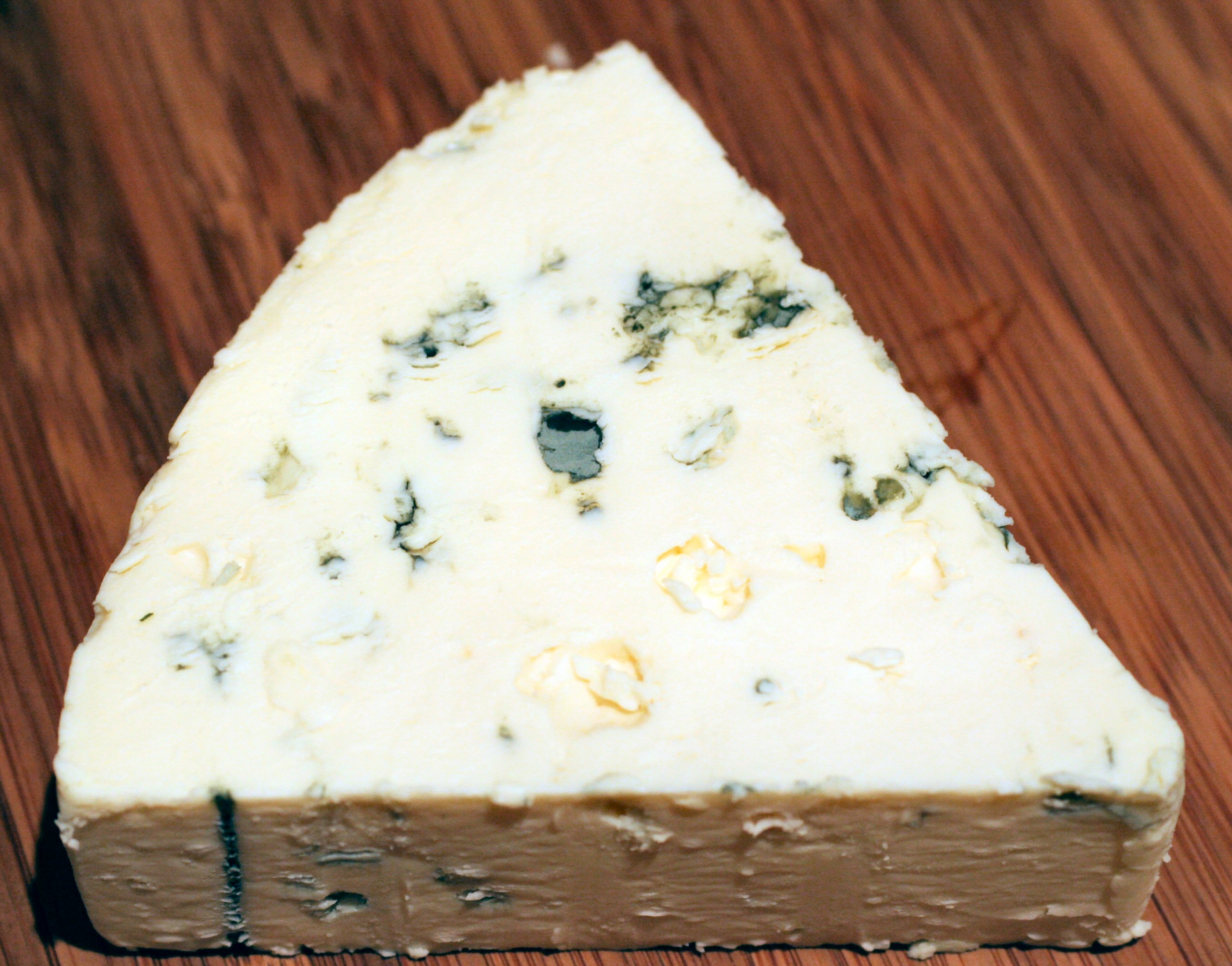 Danish Blue cheese - picture by RN Marshman (c) - since been eaten! Yummy!